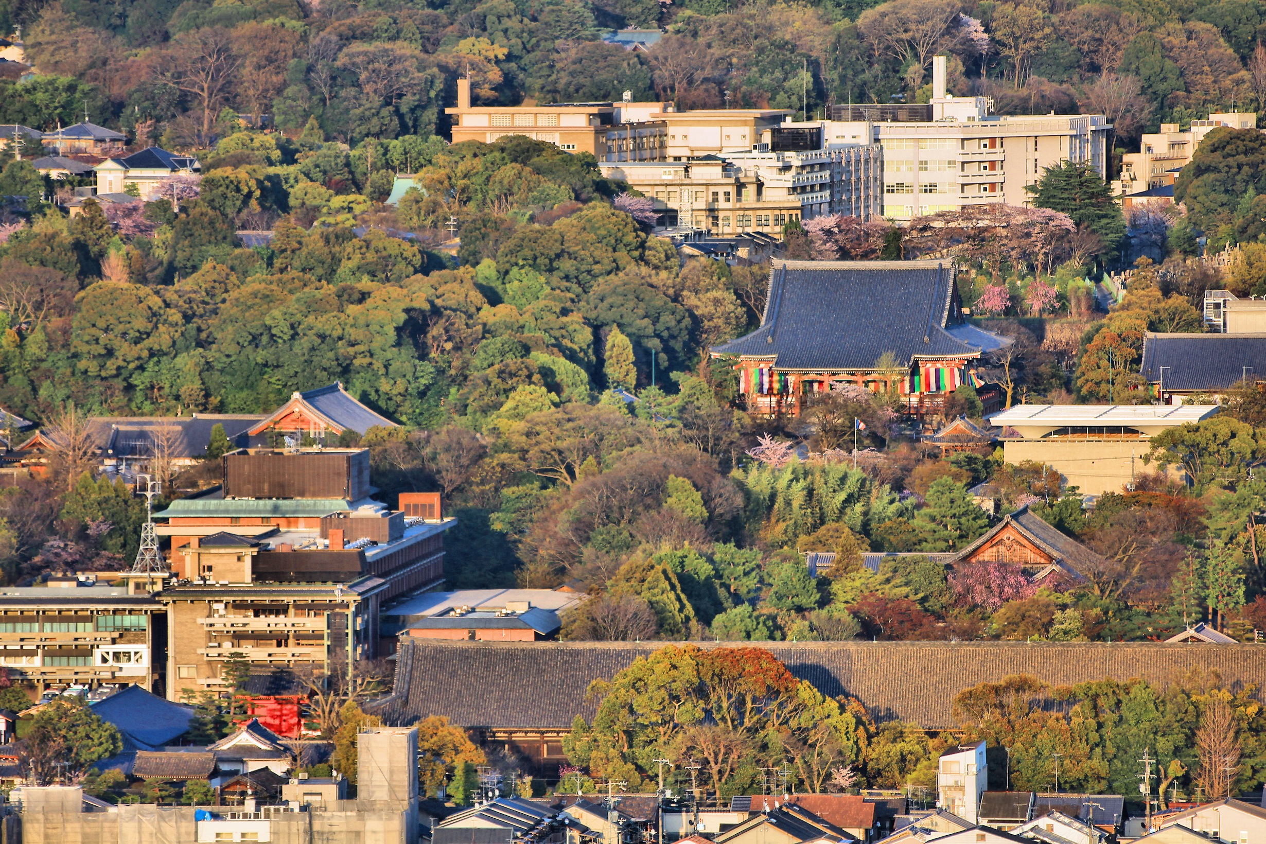 Chishaku-in Temple in Kyoto, Japan.